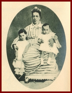 Shafaq Nur Hanemefendi was the fourth wife of Khedive Isma'il Pasha and was Walida Pasha to their son Tewfik Pasha, the next Khedive of Egypt and Sudan.